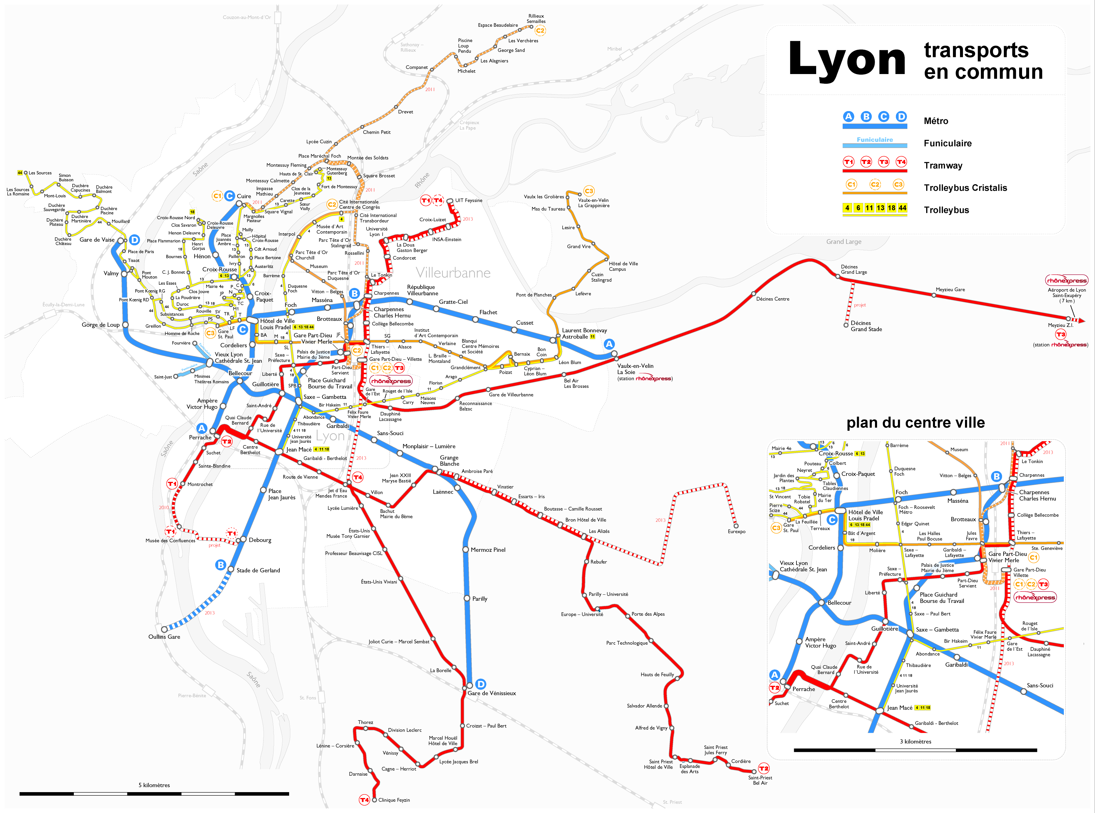 Map of Lyon: Metro, tramway and trolleybus routes as in May 2009